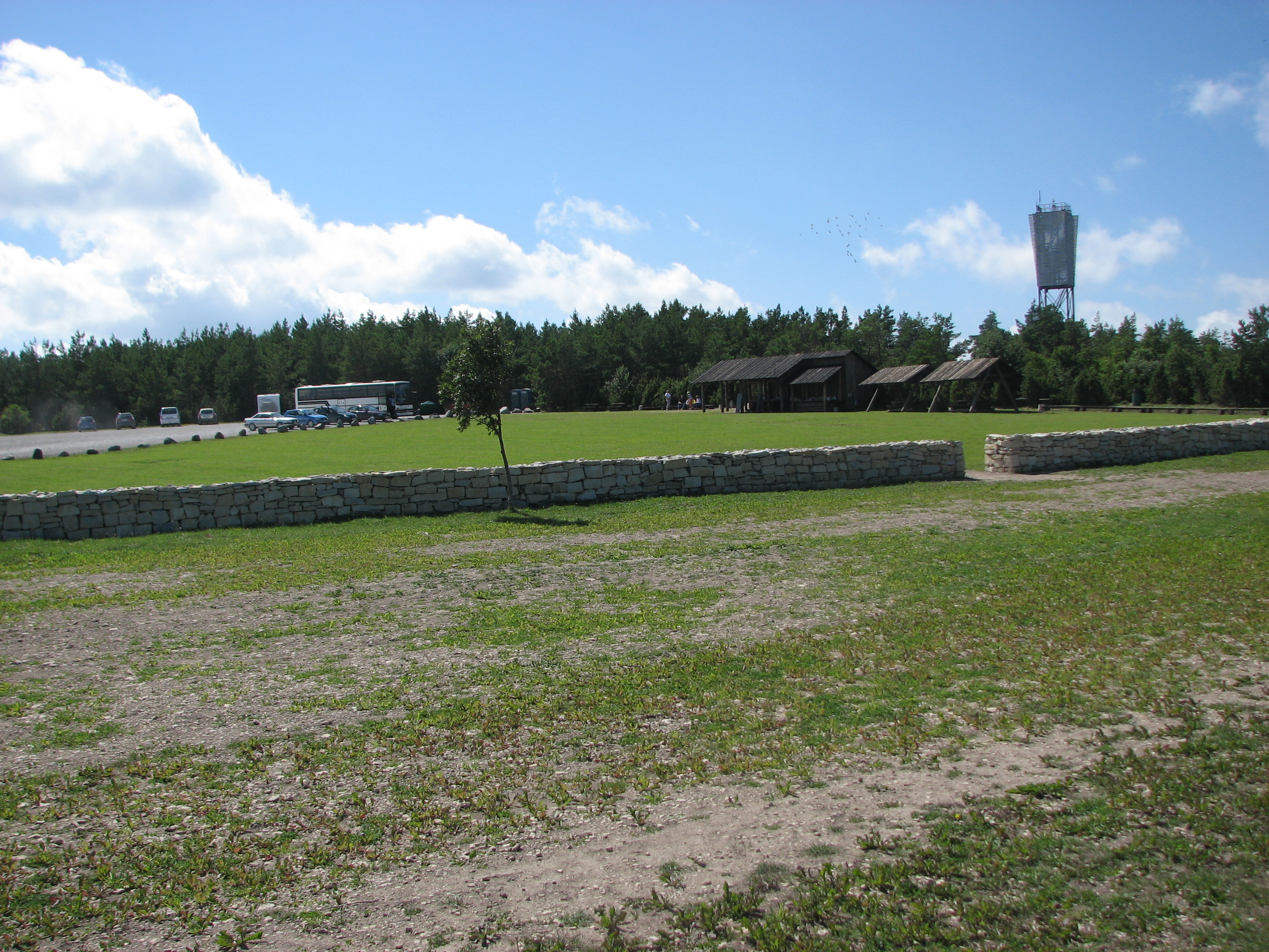 Panga cliff, Saaremaa, Estonia. Reserved parking space near the Panga cliff.